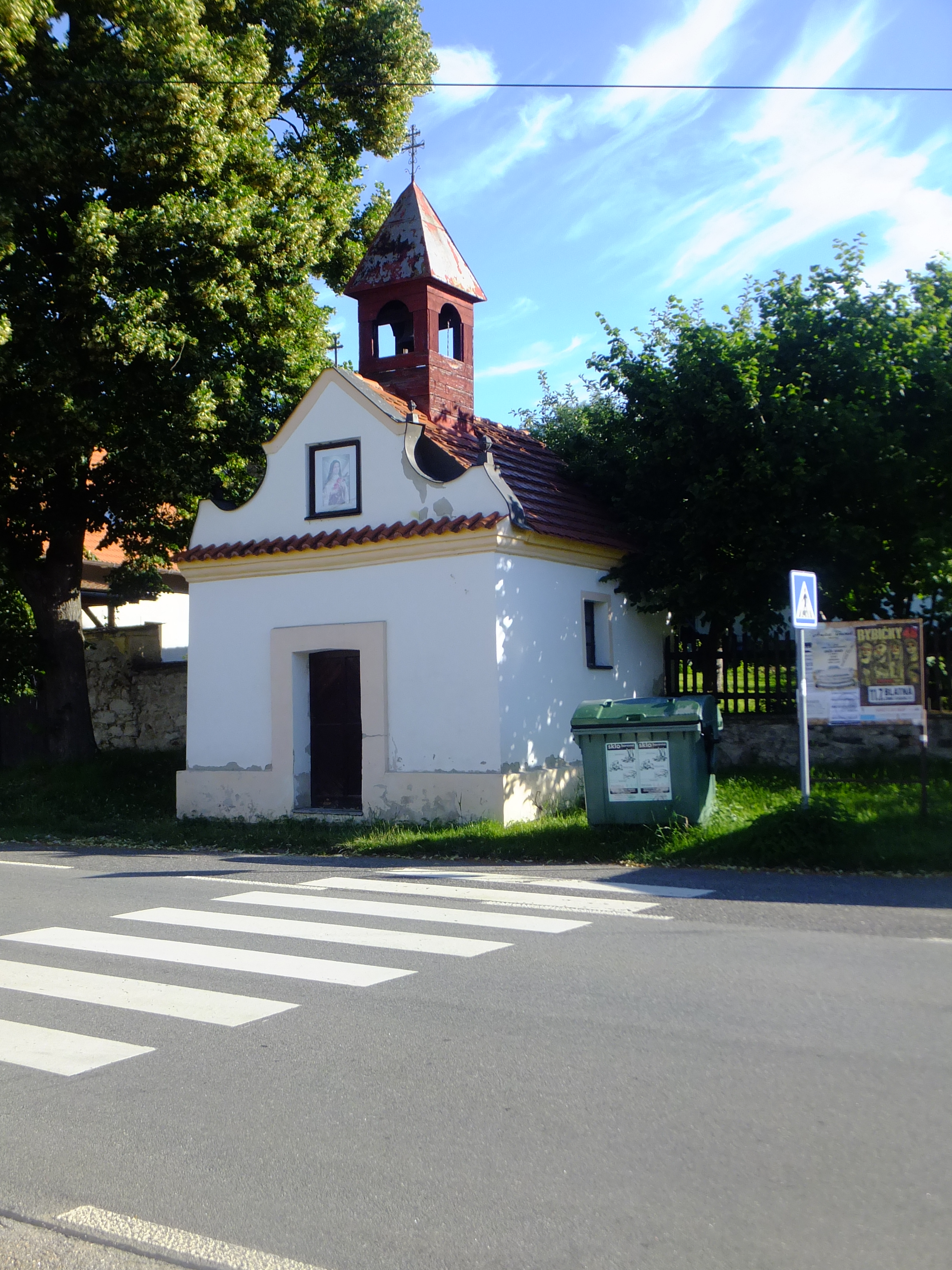 Chapel in Domanice (Radomyšl)